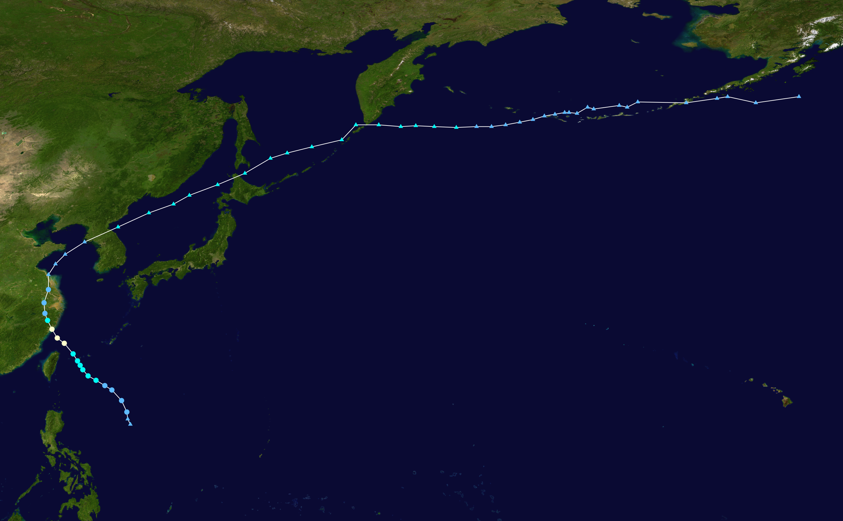 Track map of Typhoon Hagupit of the 2020 Pacific typhoon season. The points show the location of the storm at 6-hour intervals. The colour represents the storm's maximum sustained wind speeds as classified in the Saffir–Simpson scale (see below), and the shape of the data points represent the nature of the storm, according to the legend below. Saffir–Simpson scale Tropical depression≤38 mph≤62 km/h Category 3111–129 mph178–208 km/h Tropical storm39–73 mph63–118 km/h Category 4130–156 mph209–251 km/h Category 174–95 mph119–153 km/h Category 5≥157 mph≥252 km/h Category 296–110 mph154–177 km/h Unknown Storm type Tropical cyclone Subtropical cyclone Extratropical cyclone / Remnant low / Tropical disturbance / Monsoon depression